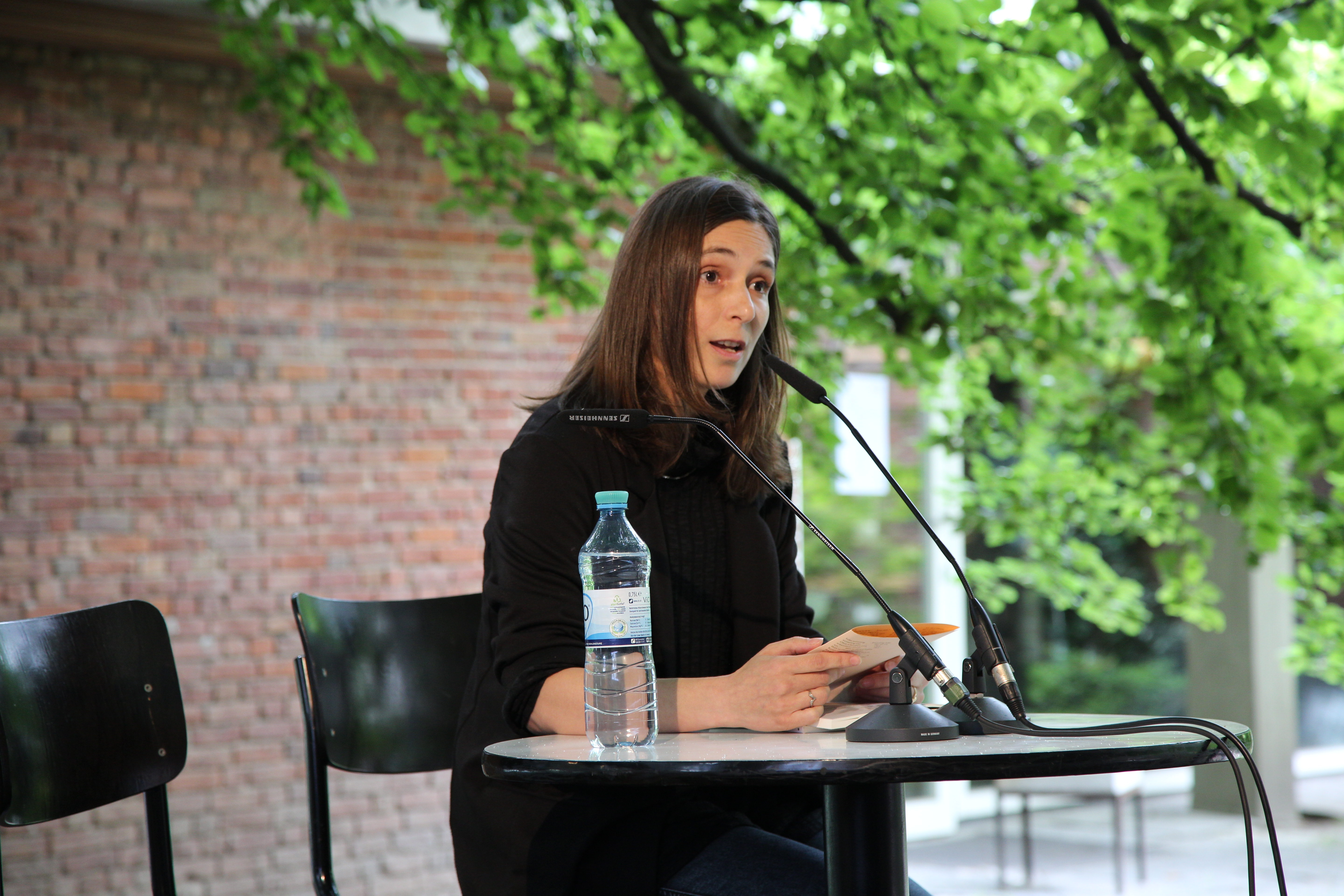 Lydia Daher at the Lyrikmarkt 2017